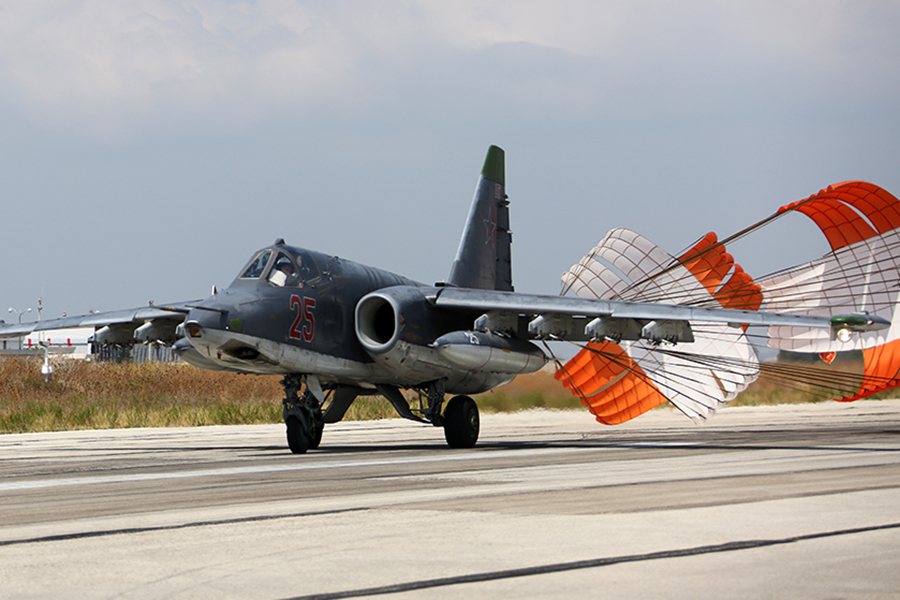 Russian Sukhoi Su-25 at Latakia